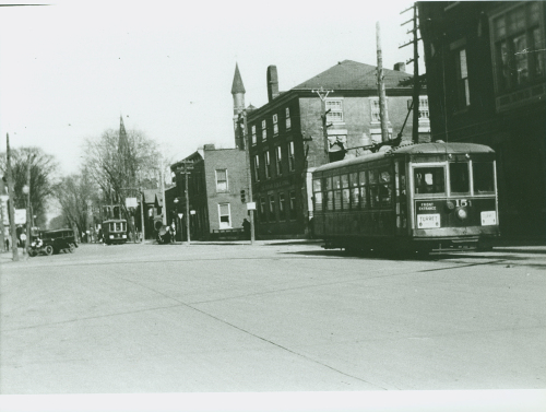 Cornwall_streetcars_on_Pitt_St,_1920. Original caption: "Pitt and 2nd Streets looking east, circa 1920. The building in the centre was originally built for the Sterling Bank of Canada, it is now Pommier Jeweler’s Parking Lot."